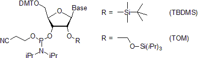 Rnaamidite